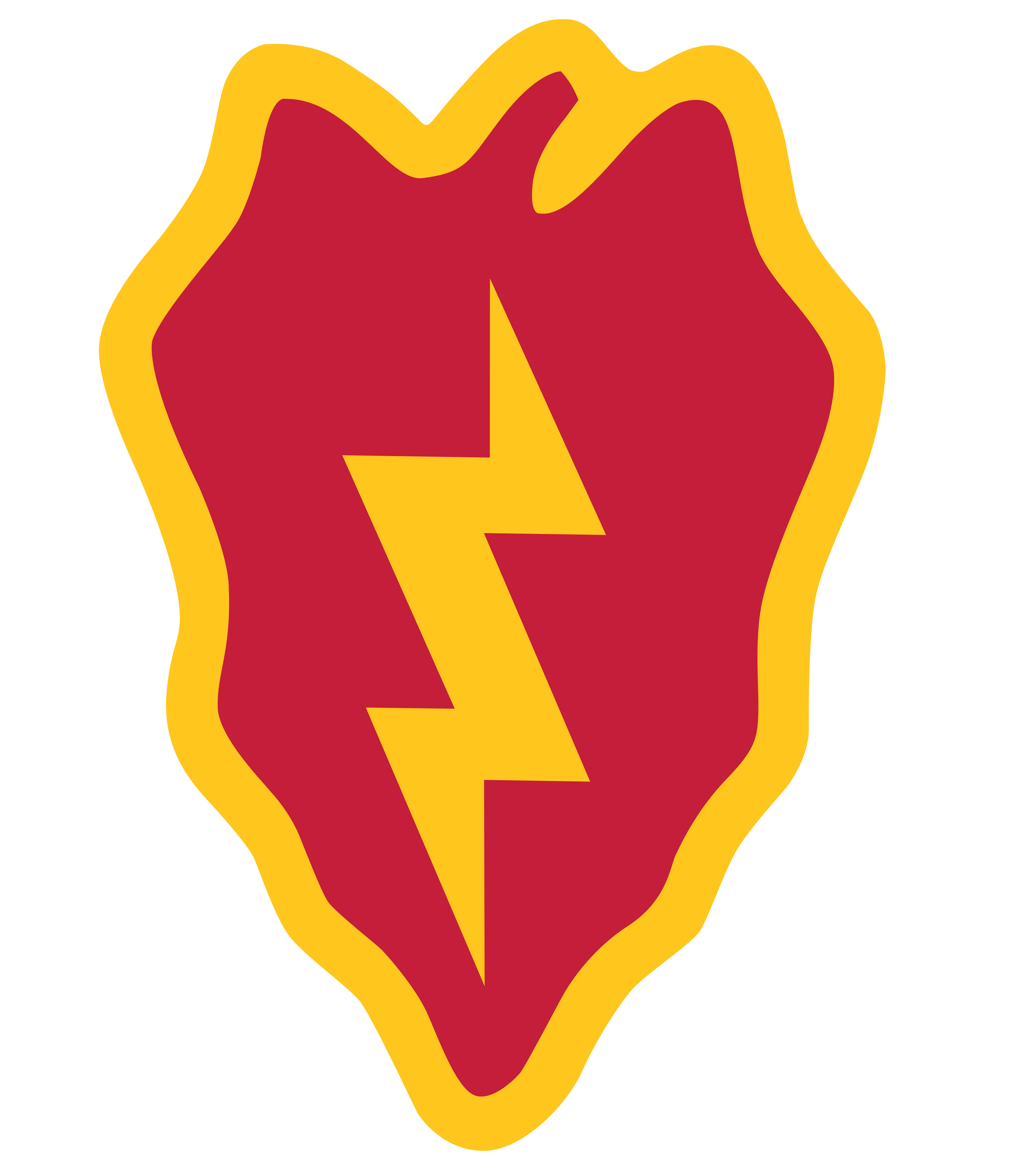 25th Infantry Division shoulder sleeve insignia representing the proper shades of scarlet and yellow as approved by the U.S. Army Department of Heraldry.